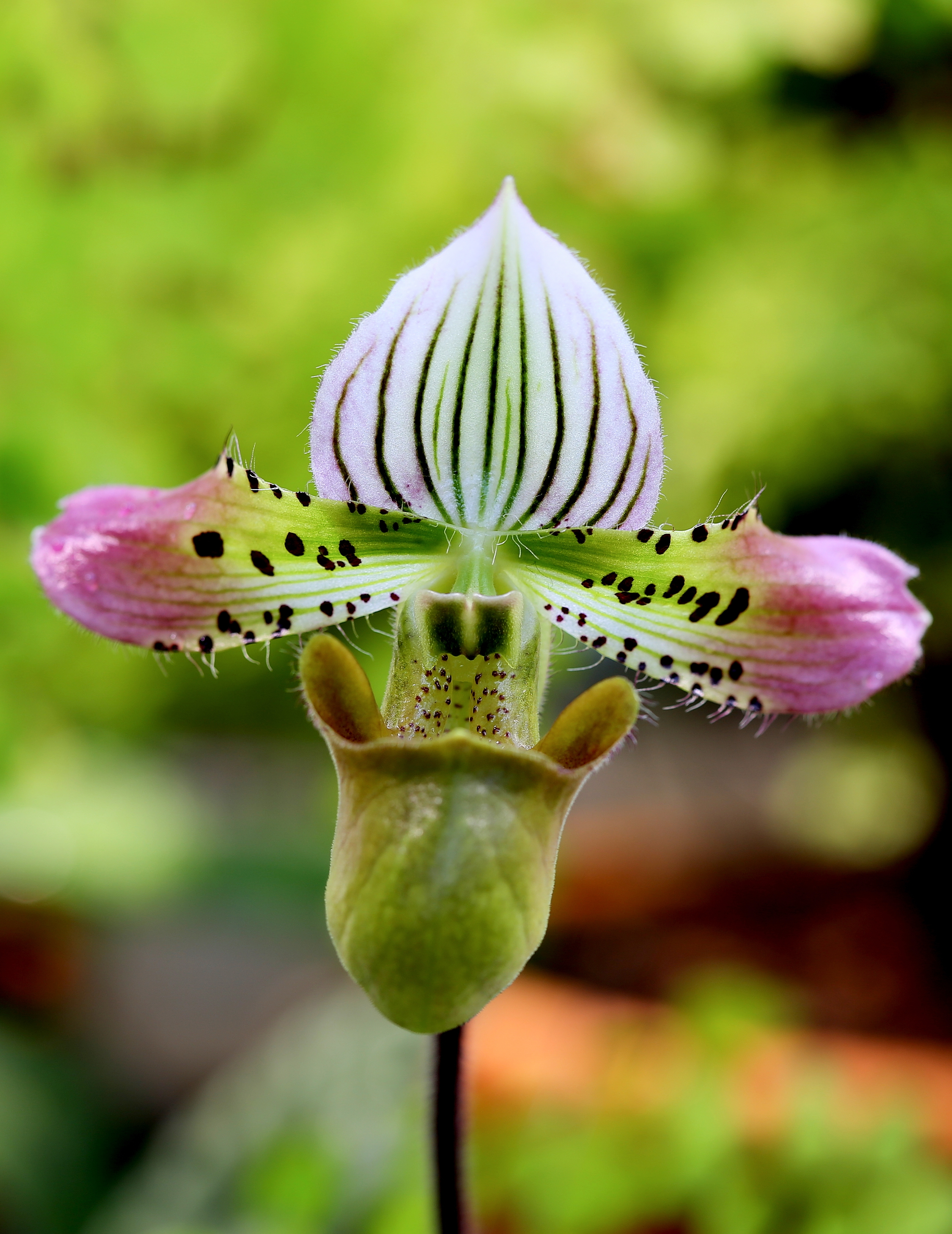 Paphiopedilum acmodontum at Gothenburg Botanical Garden in 2015. Plant id: 1990-V0031 p G -- Sönnerm.